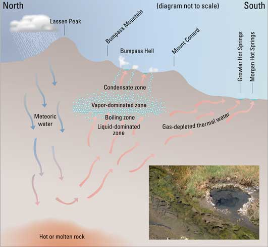 USGS image from [1]